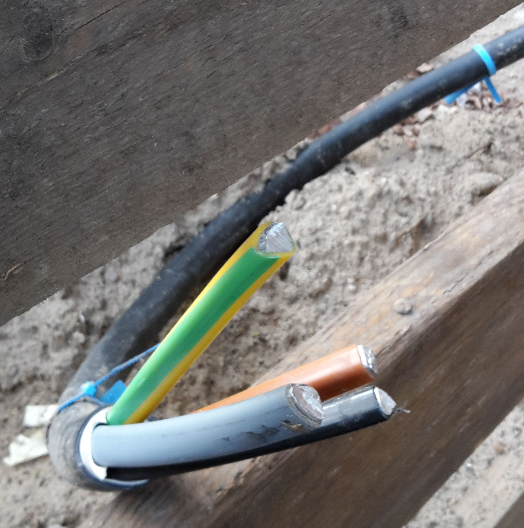 Underground cable Type NAYY